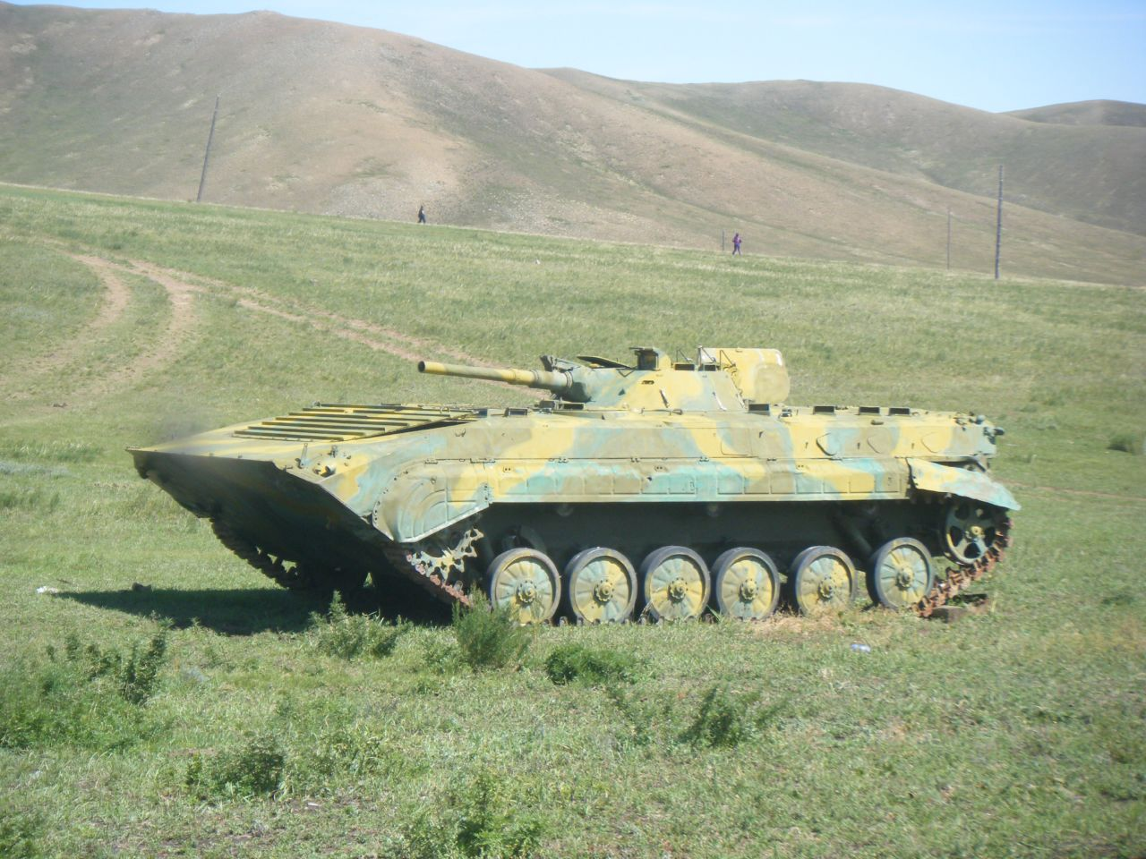 Mongolian BMP-1 IFV near or in Ulan Bator, Mongolia.